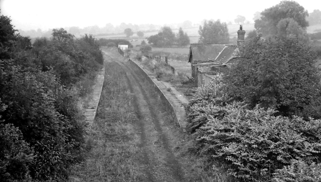 Blakesley Station (remains). View SE, towards Towcester and Blisworth; ex-Stratford & Midland Jct. (LMSR) Blisworth - Broom Junction line. Station and line closed to passengers 7/4/52, goods 4/4/62. See also SP0952 : Site of Bidford-on-Avon Station.